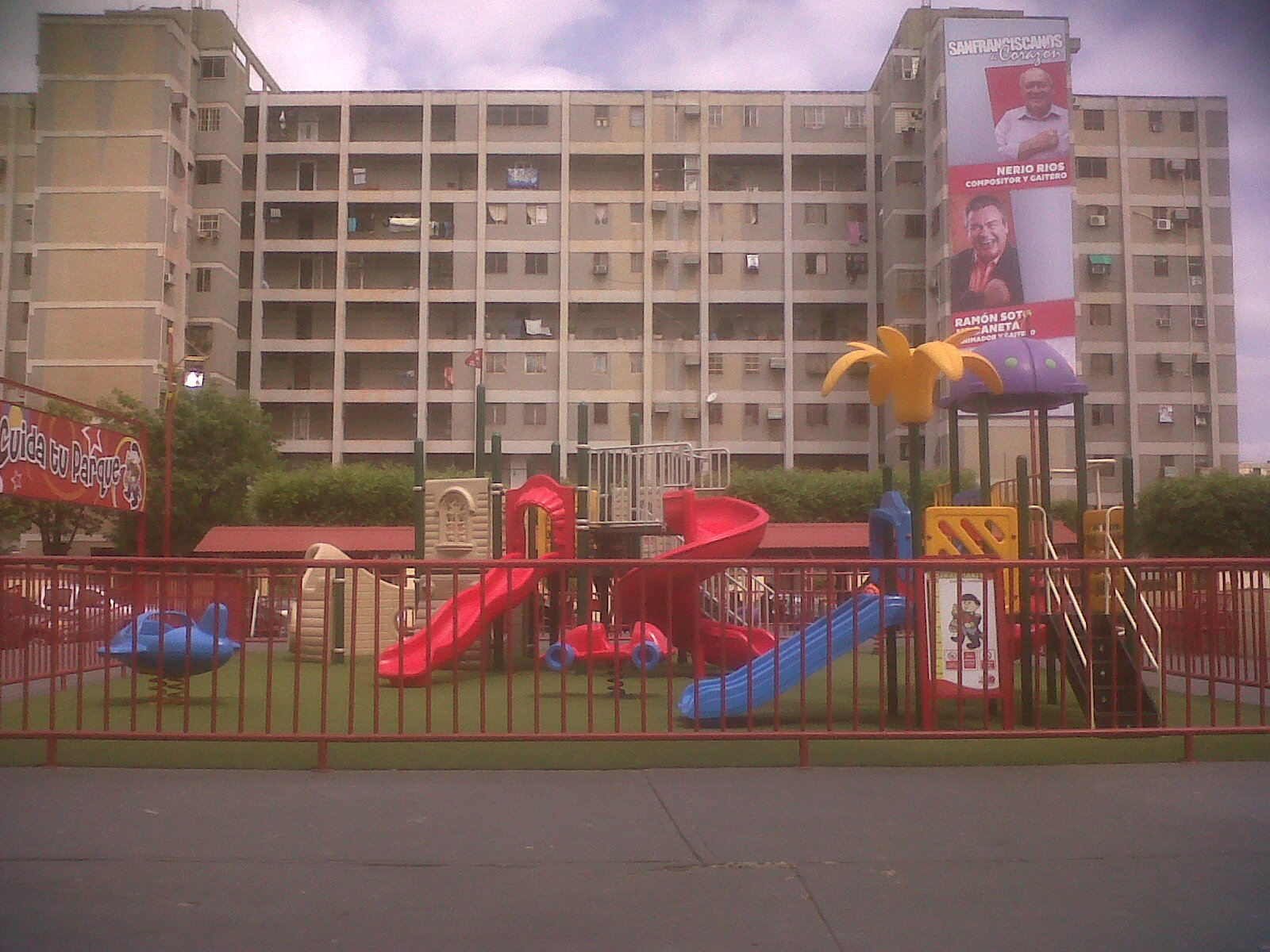 avenue